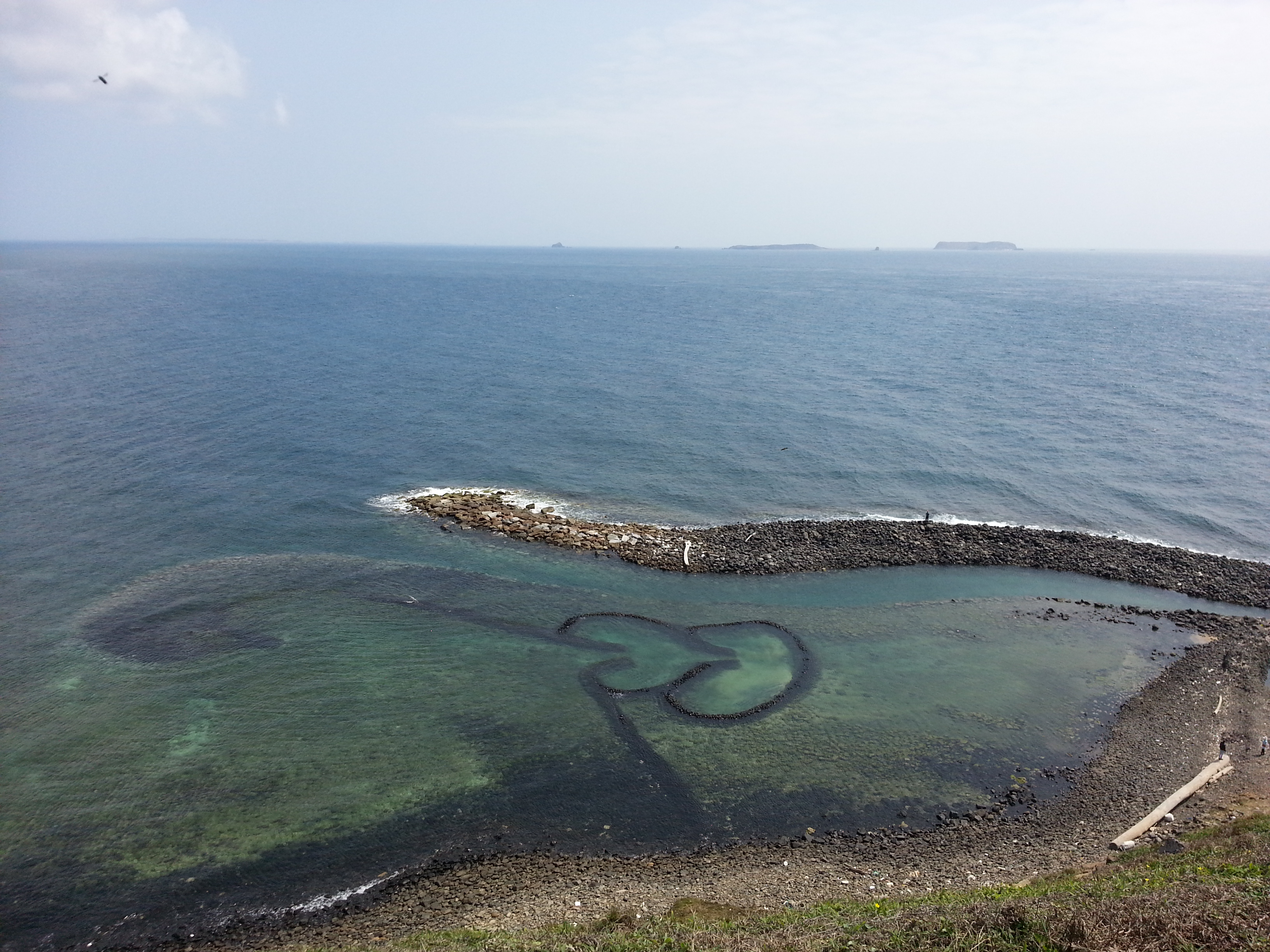 Heart in heart